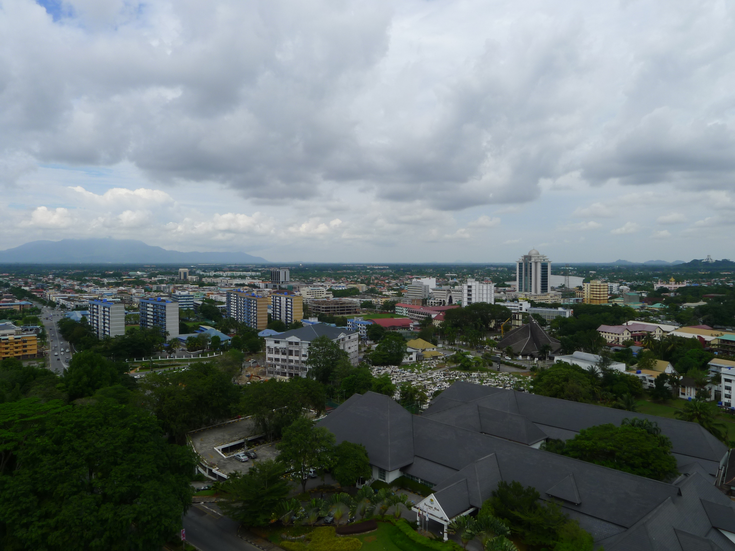 Panorama of Kuching City with Mount Serapi on the background.